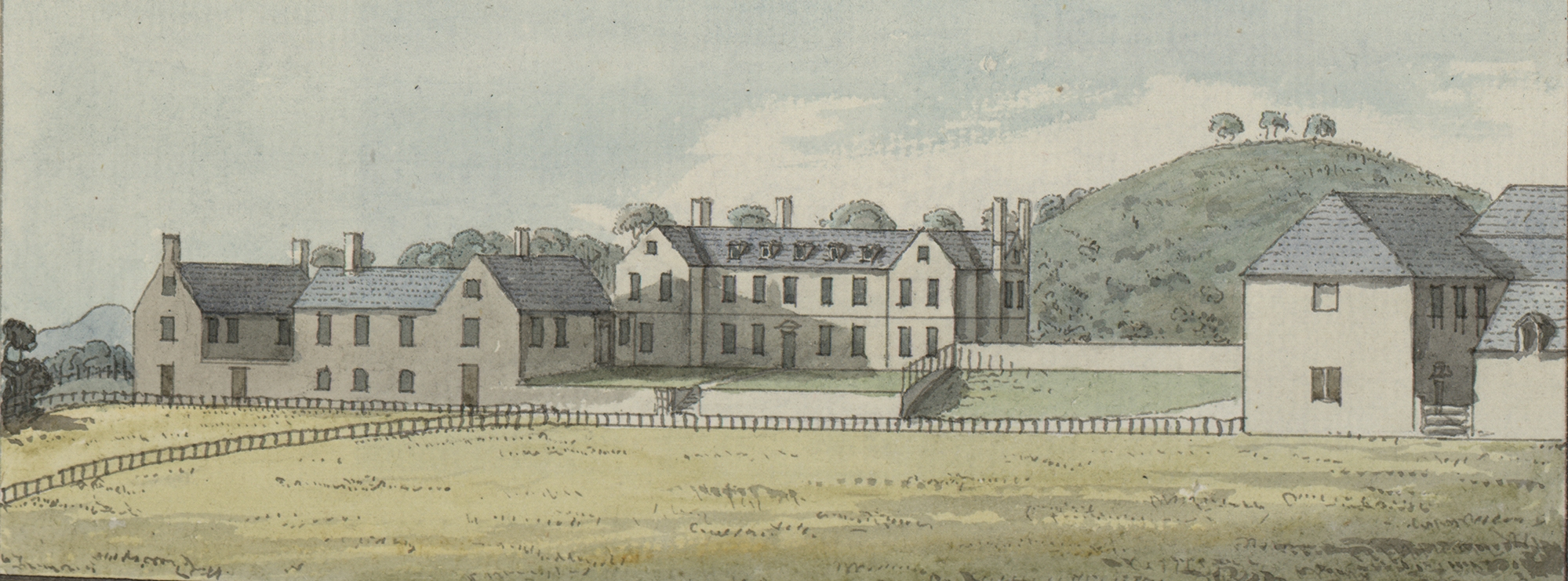 An image from a set of 8 extra-illustrated volumes of A tour in Wales by Thomas Pennant (1726-1798) that chronicle the three journeys he made through Wales between 1773 and 1776. These volumes are unique because they were compiled for Pennant's own library at Downing. This edition was produced in 1781. The volumes include a number of original drawings by Moses Griffiths, Ingleby and other well known artists of the period. Thomas Pennant (1726-1798)